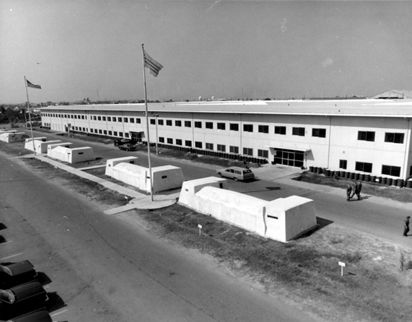 Photo of MACV HQ, Tan Son Nhut, Saigon from p 62 of Vietnam Studies Command and Control 1950-1969 by Major General George S. Eckhardt, Department of the Army, Library of Congress Catalog Card Number 72-600186